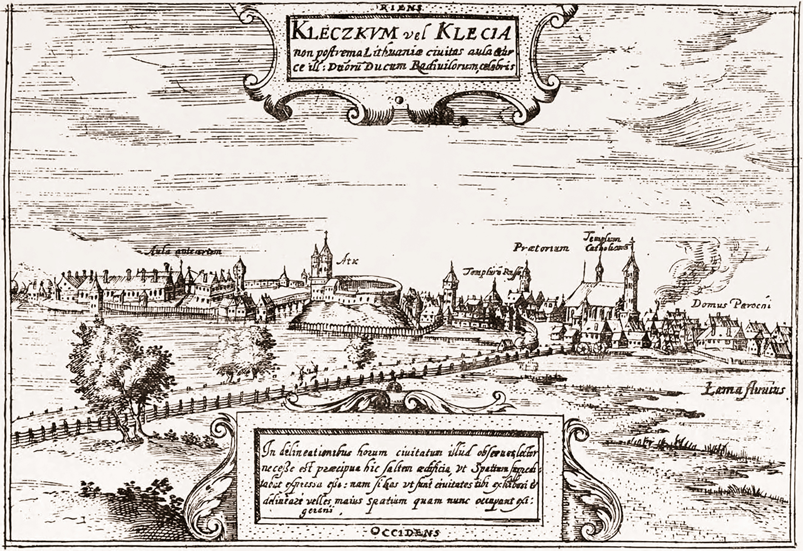 Drawing of Klecak